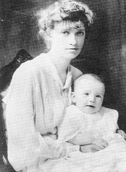 Portrait of Bernice Mary “Bunny” Ayres and her son Gregory Peck, early 1918.